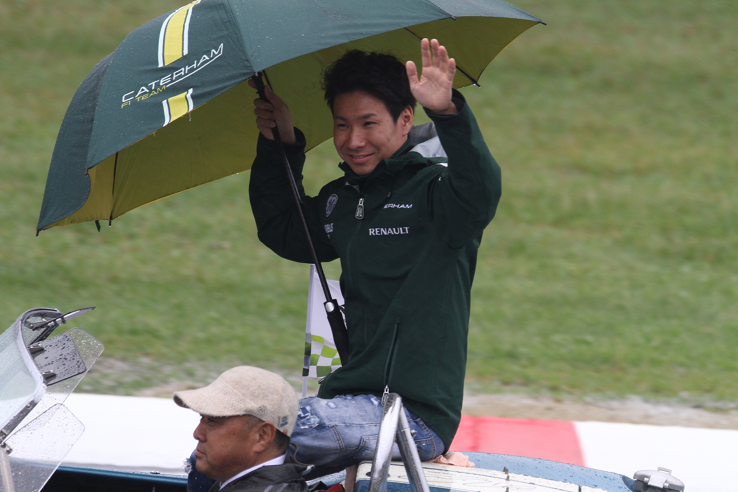 2014.10.5 F1 Rd.15 Suzuka Drivers Parade, Caterham F1 Team (CT05) 10 小林可夢偉 [IMG_4393ks]